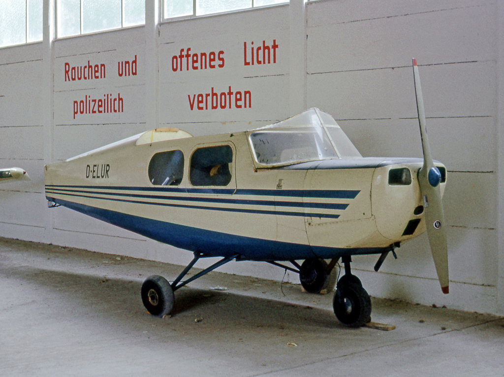 Dittmar HD.156A-1 Motor Mowe D-ELUR at Egelsbach airfield near Frankfurt in 1965